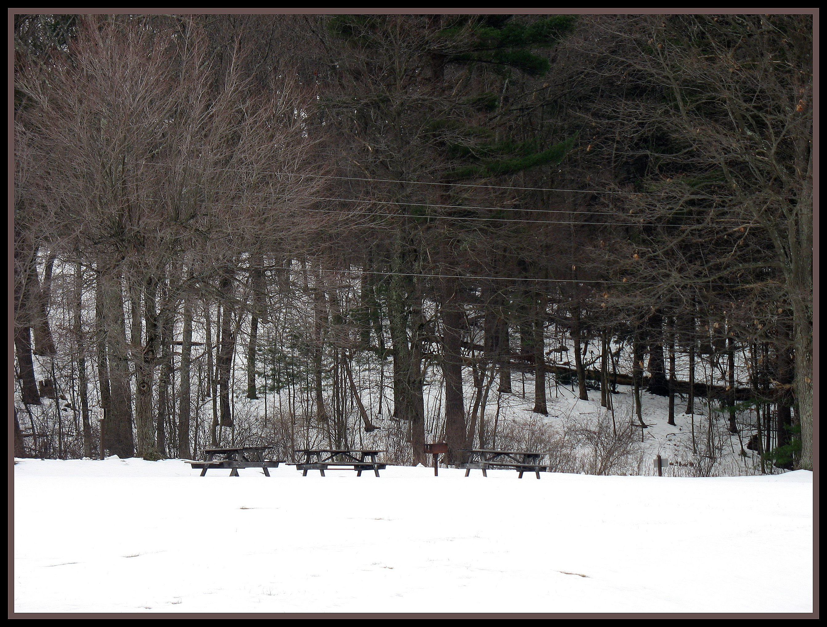 A snowy picnic area at Frances Slocum State Park.